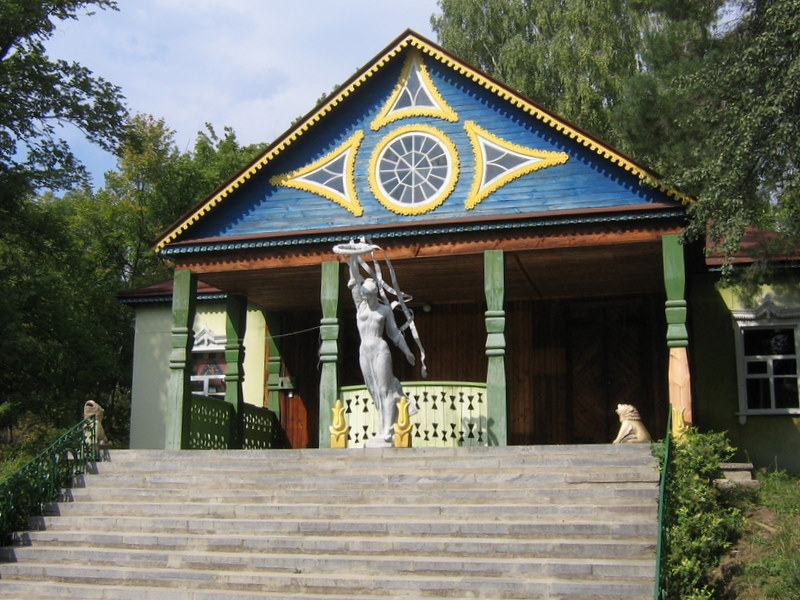 Museum of Ukrainian Rites and Customs